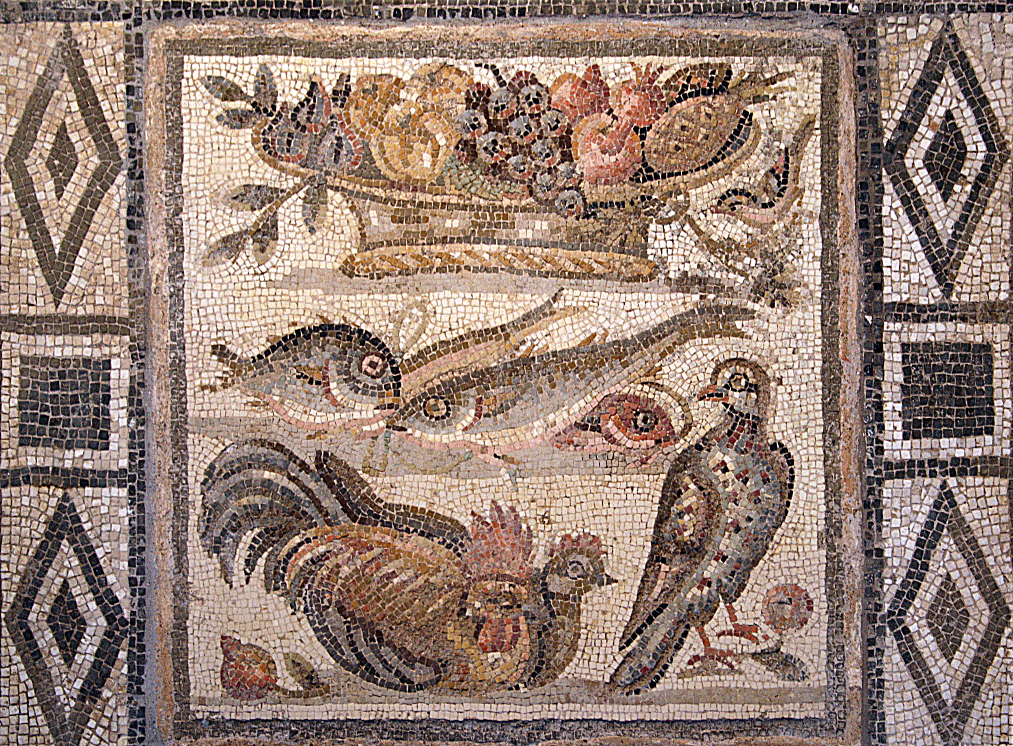 Floor mosaic depicting birds, fish and fruit basket. Opus vermiculatum, Roman artwork of the end of the 1st century BC/begin of the 1st century AD.